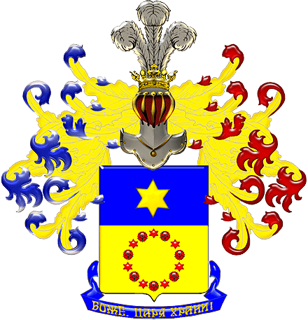 Coat of Arms of Zgukovsky family